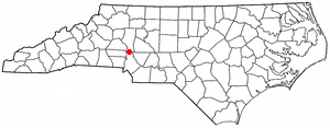 Category:North Carolina Dot Maps